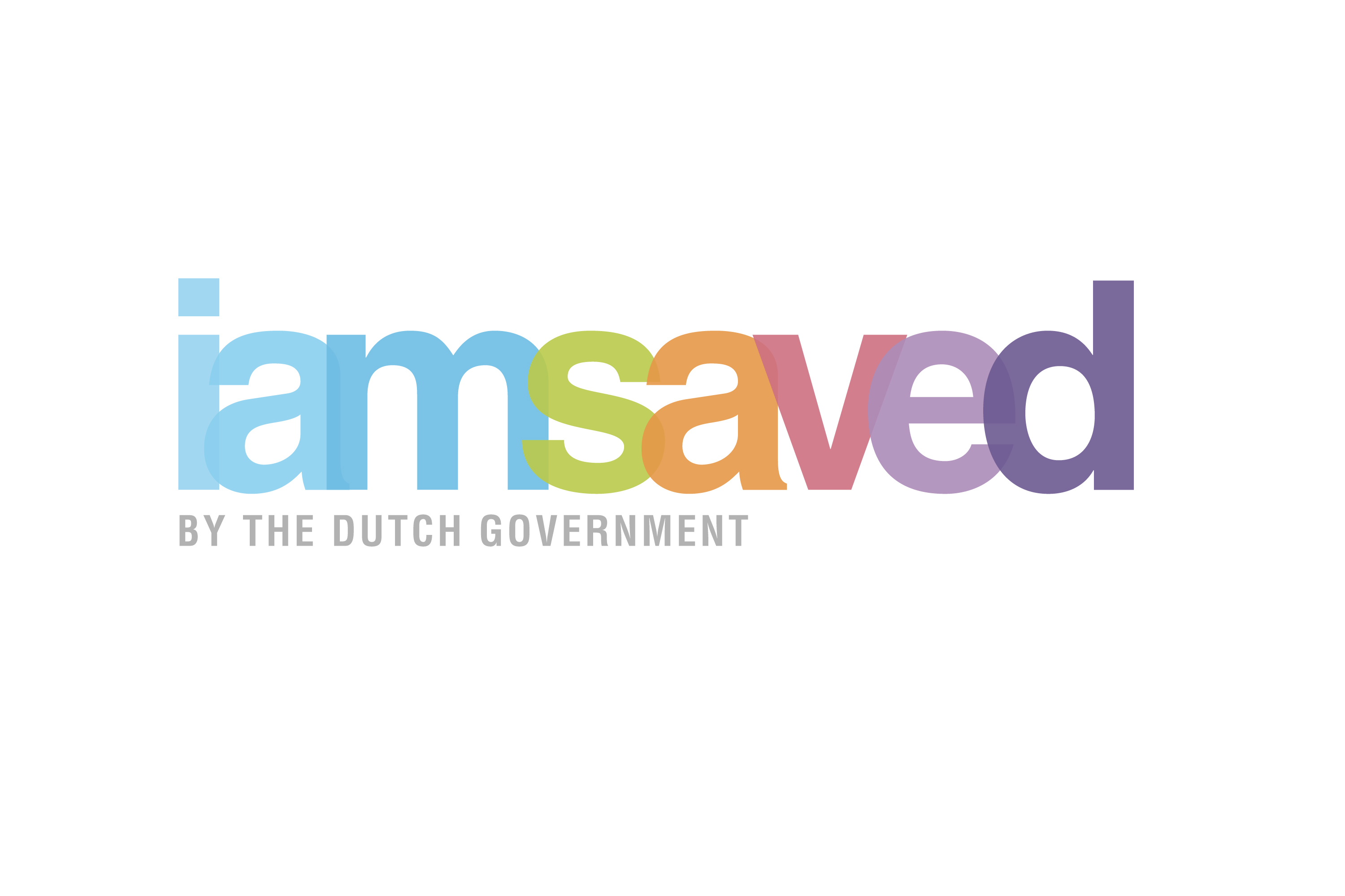 Adaptation of Icesave Logo (Icesave is an Icelandic bank) after Icesave went bankrupt and the Dutch Government promised to help Dutch savers.